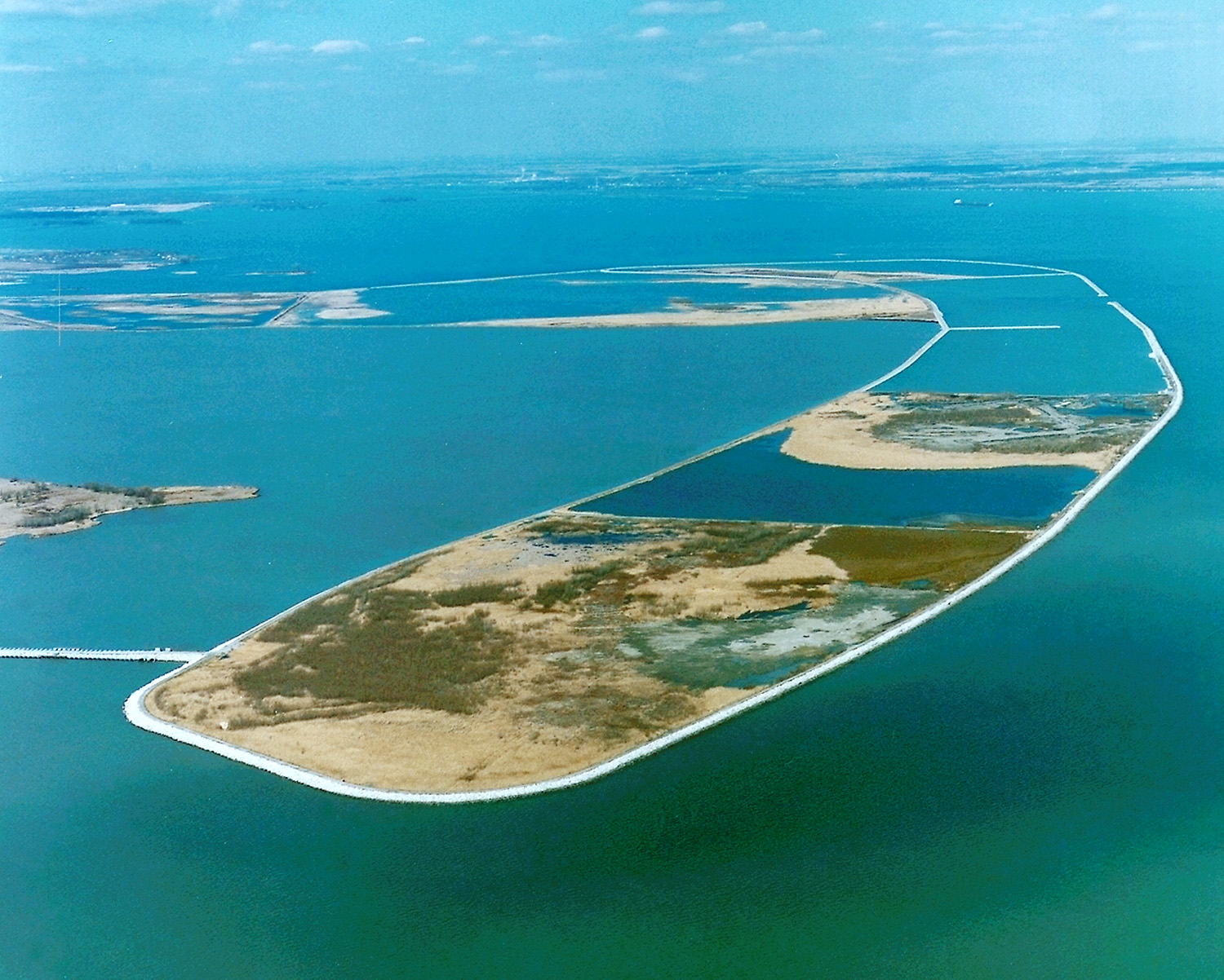 Aerial view of the Pointe Mouillee Wildlife Refuge in western Lake Erie near Estral Beach, Michigan, USA.